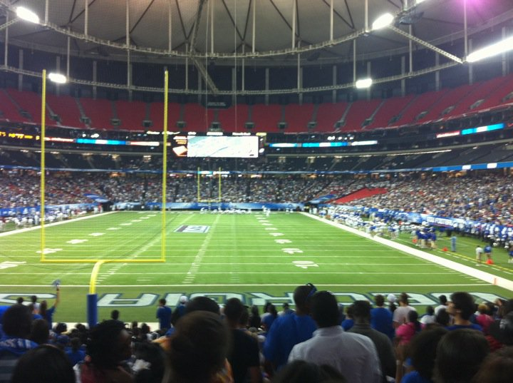 The Georgia Dome during the Georgia State Panthers football teams inaugural game against the Shorter University Hawks